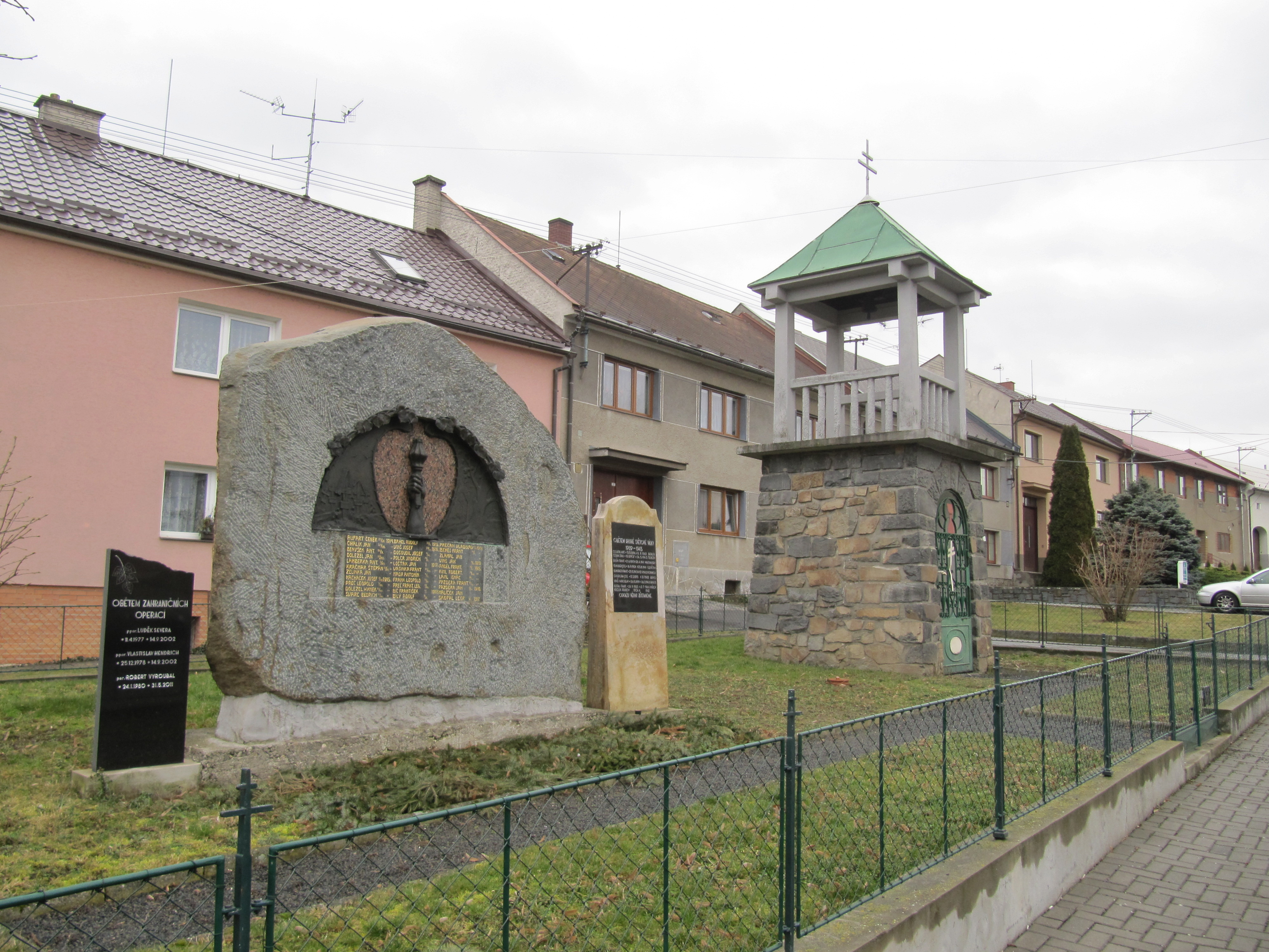 Přáslavice, Olomouc District, Czech Republic.